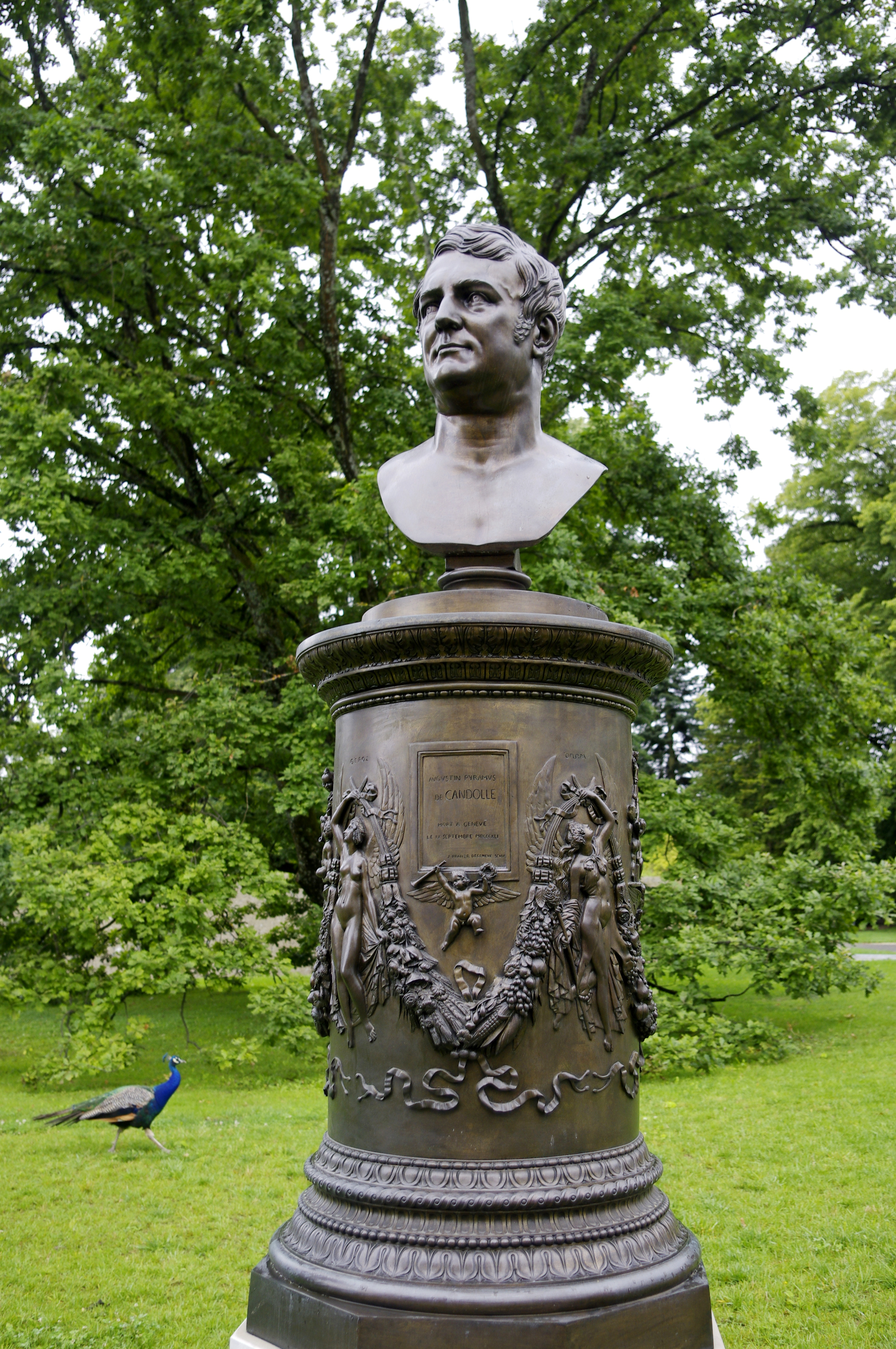 Geneva - Botanical Garden. Statue of Augustin Pyramus de Candolle by James Pradier